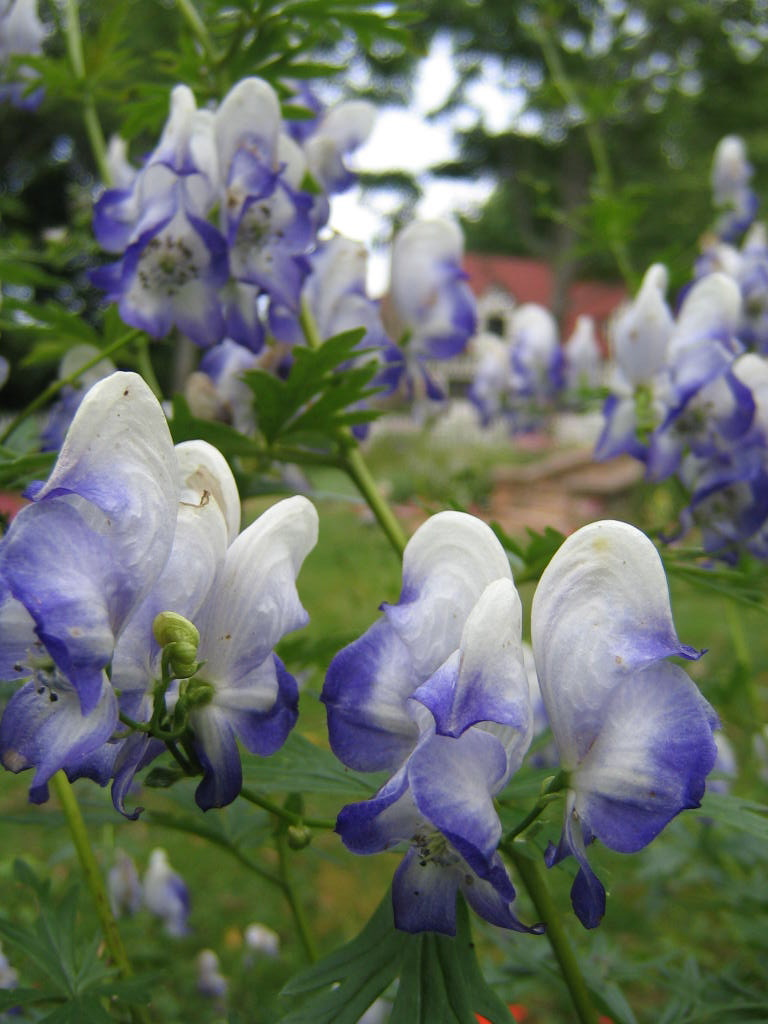 The name escapes me do you know?Flowers @ the Wooleigh "Miniatures" garden